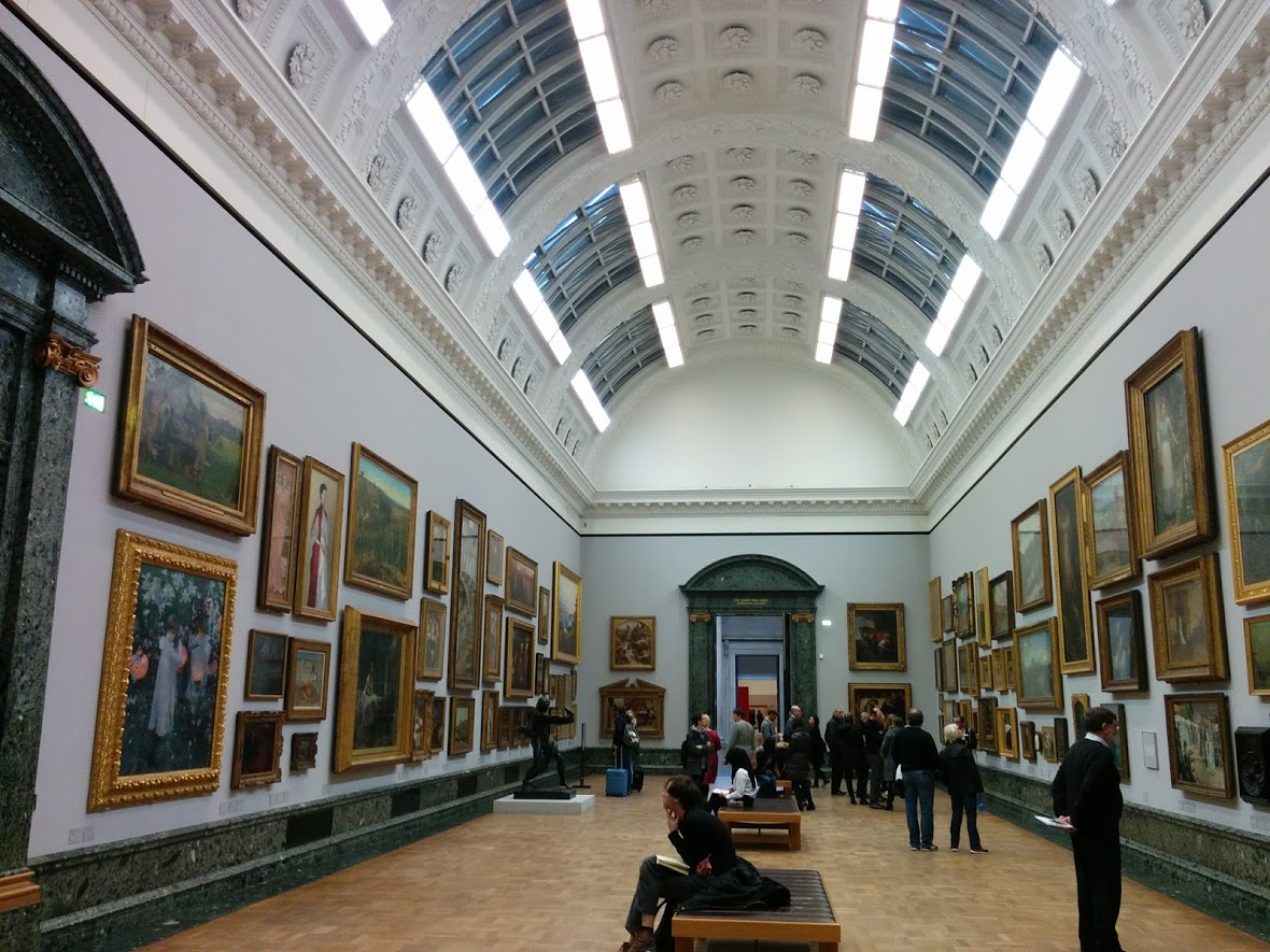 Tate Britain art browsing